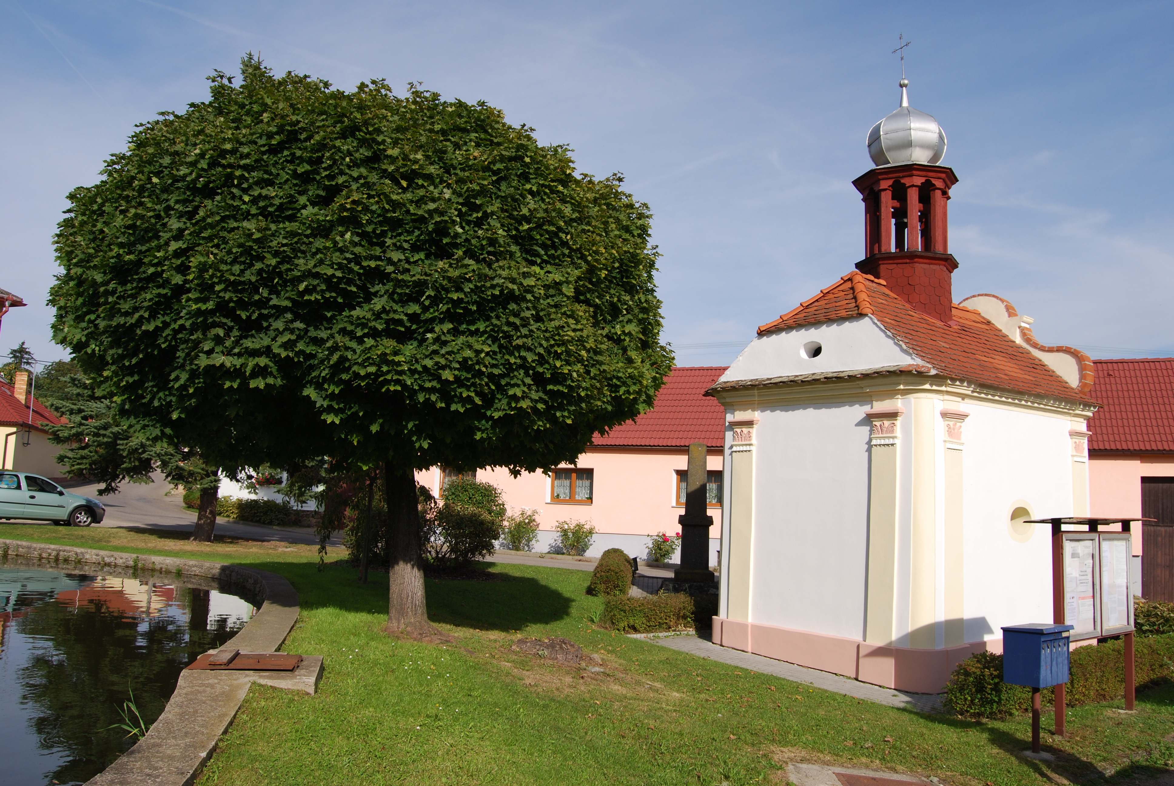 Truskovice village in Strakonice District, Czech Republic. Chapel